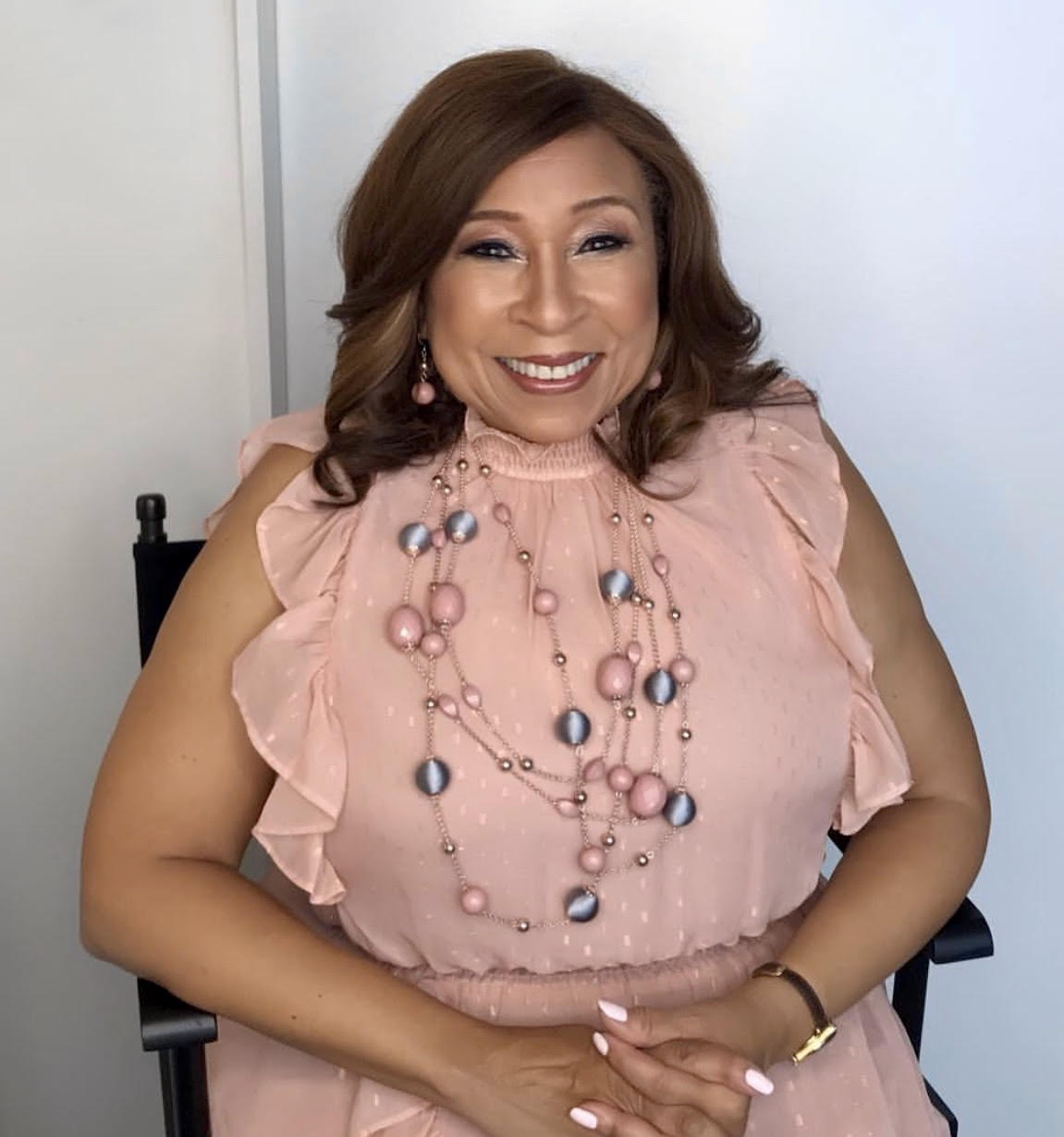 Tanya Hart taping a vdieo special for radio company AURN